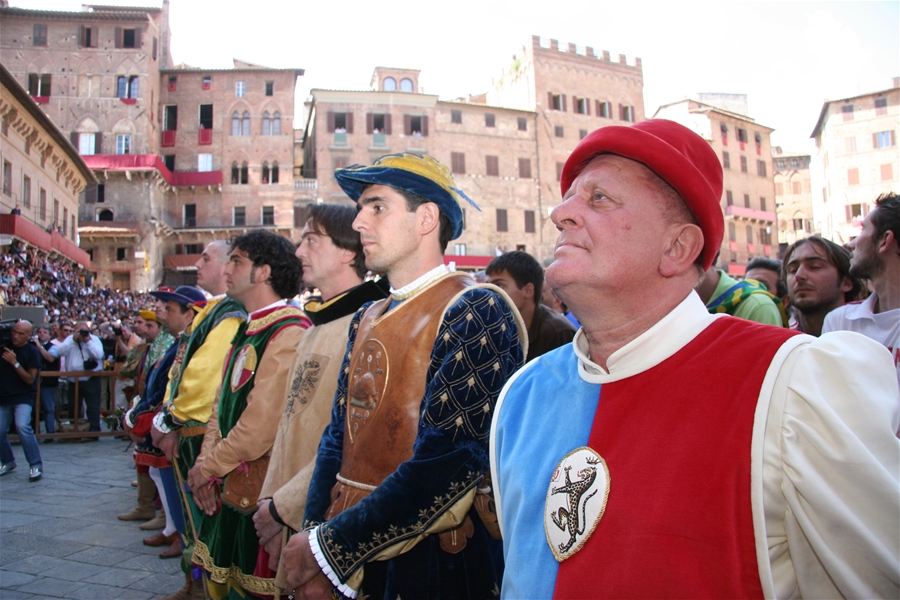 Contrada men waiting for the horses